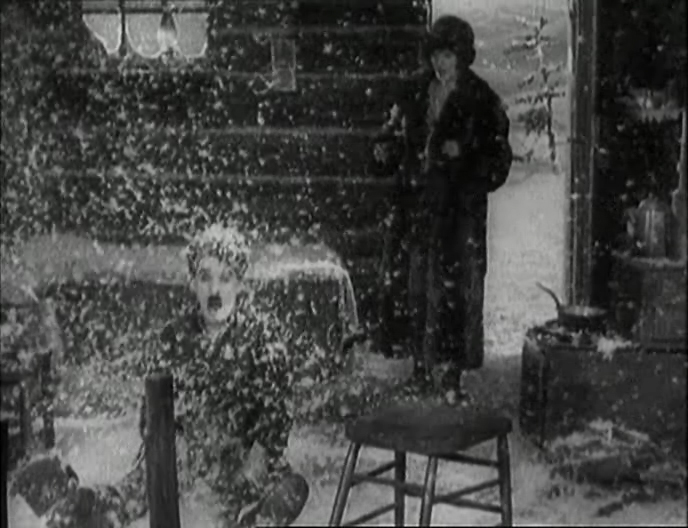 Scene from the movie The Gold Rush. 1925.